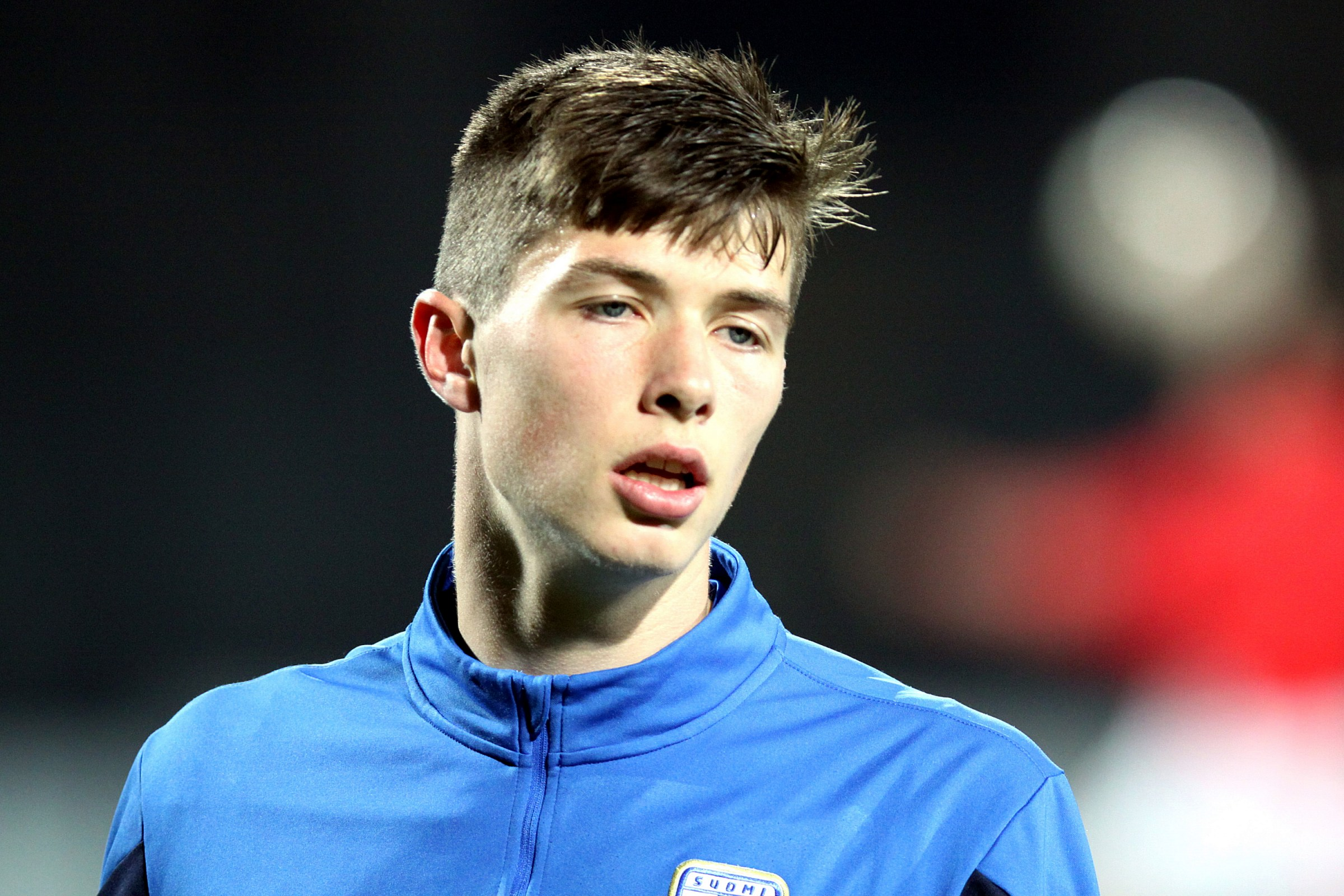 2017 UEFA European Under-21 Championship qualification – Austria U-21 (red shirts) vs. :en:Finland national under-21 football team |Finnland U-21 (blue shirts) 2-0 (0-0) – 2015-11-13 in Vienna, Austria Arena – The photo shows Daniel O'Shaughnessy.